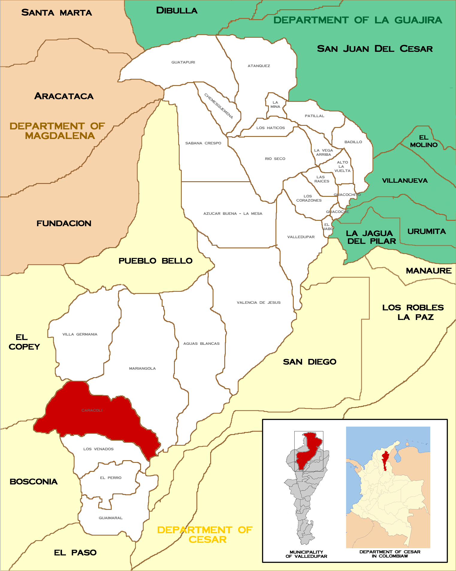 Map of Corregimientos of Valledupar, Caracoli